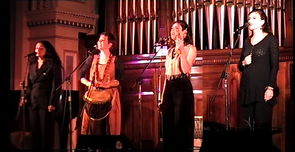 Arramaeida (Australian vocal group) on stage in Hobart, Australia, April 1995 (Tony Rees photograph). L-R: Pascale Rose; Rachel Hore; Melanie Shanahan; Kirsten Mackenzie. Taken at Hobart Town Hall on 21 April 1995.